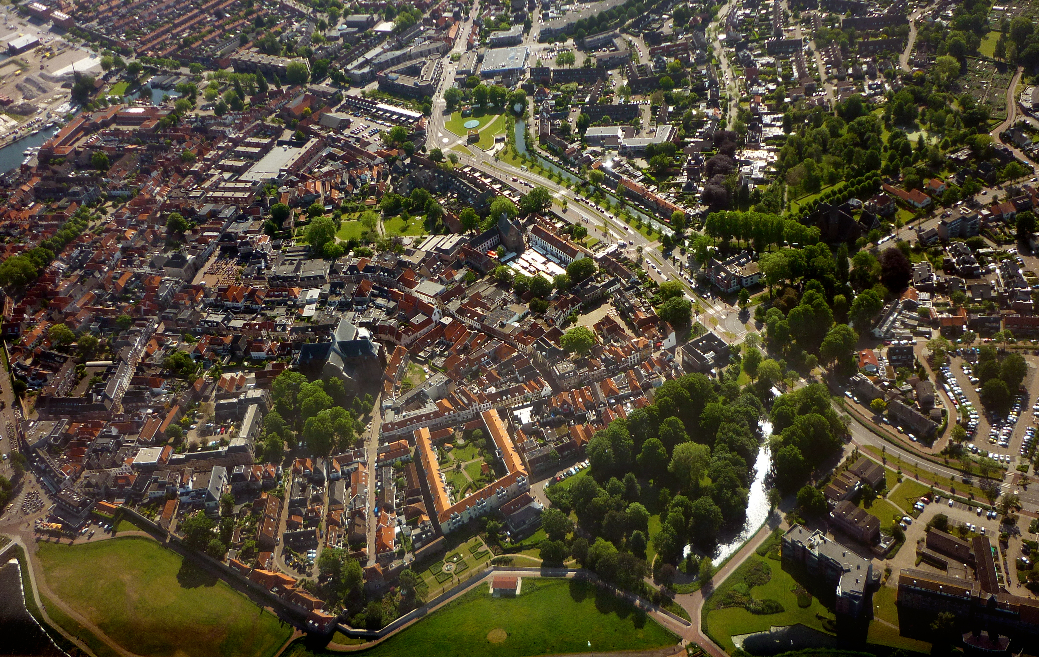 Centre of Harderwijk from above